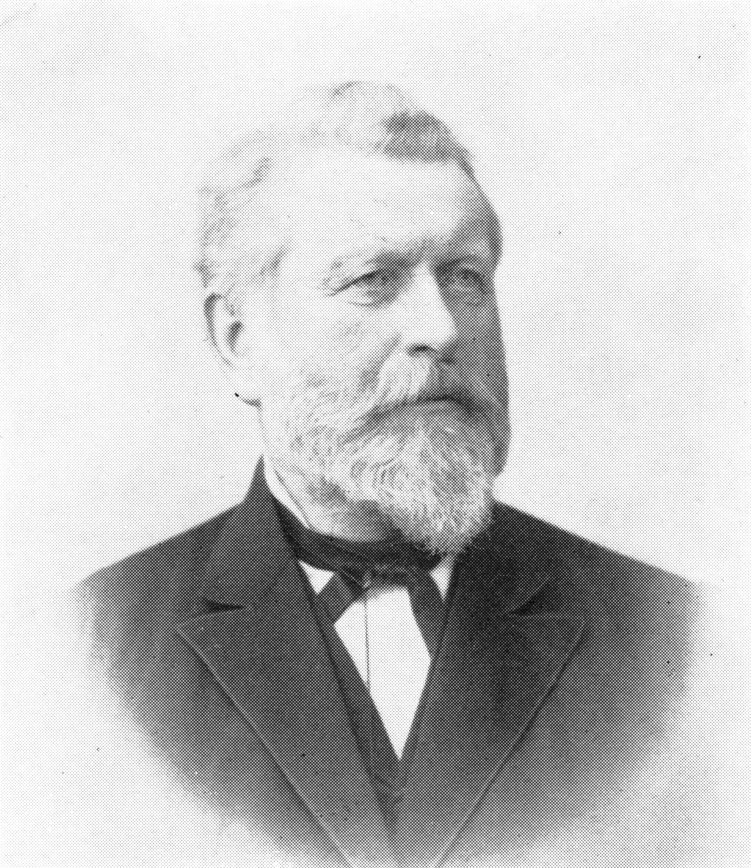 Johannes Steen, prime minister of Norway 1891-93 and 1898-02.